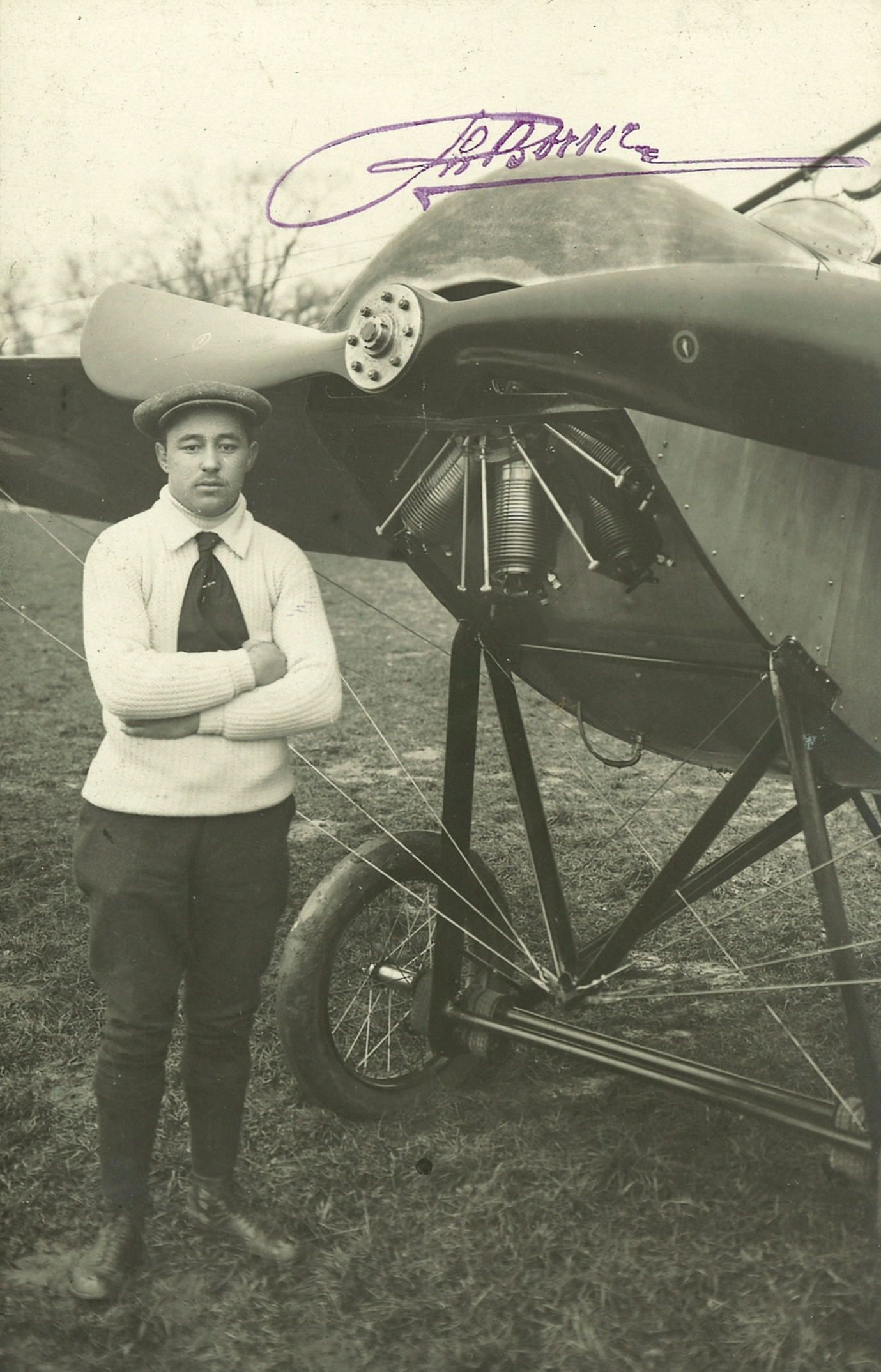 Swiss aviation pioneer Theodor Borrer (1894-1914). Contemporary postcard bearing Borrer's rubberstamped signature, probably used by Borrer as means of promotion.